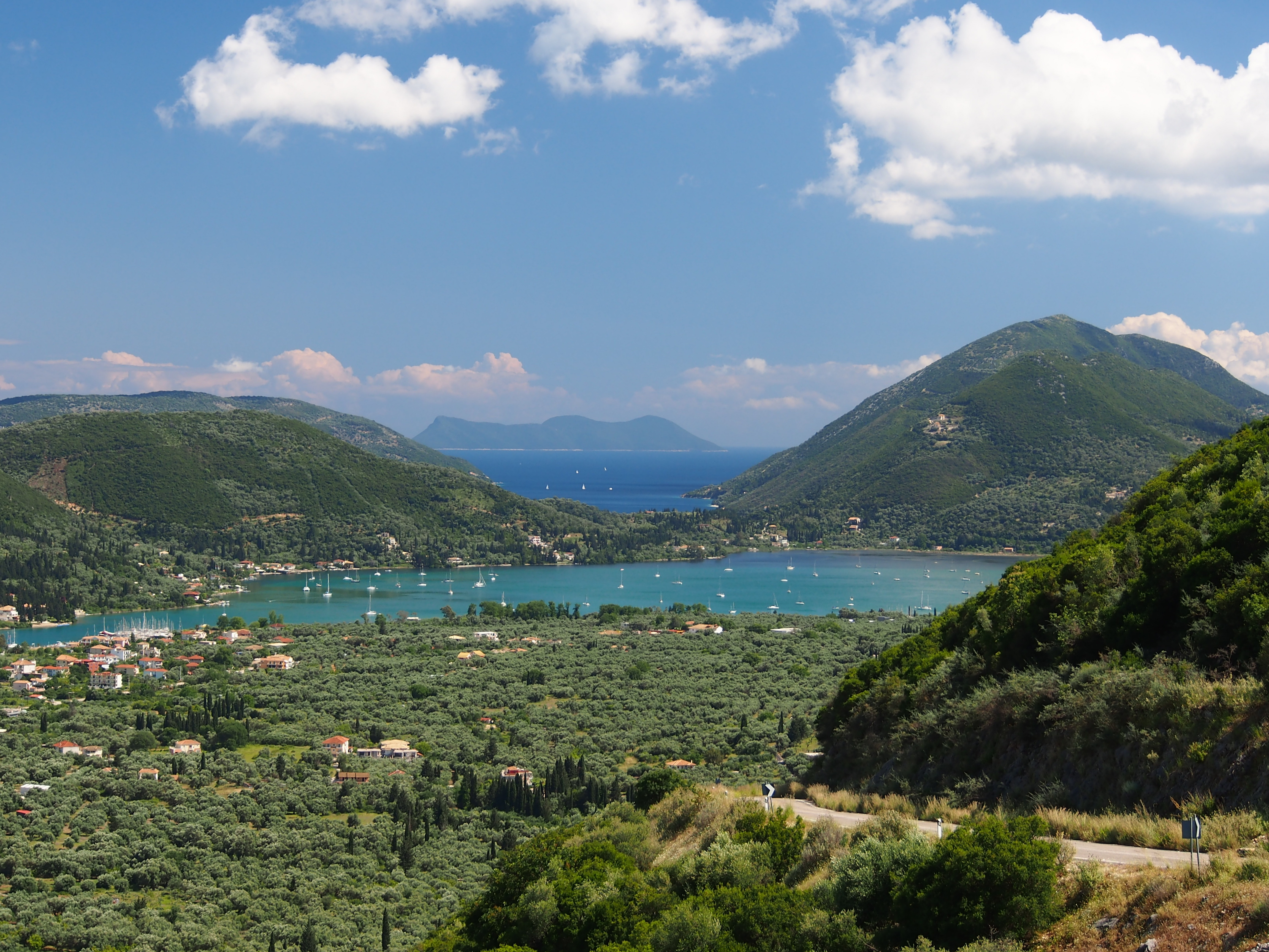 Photographed on Lefkada, Greece.